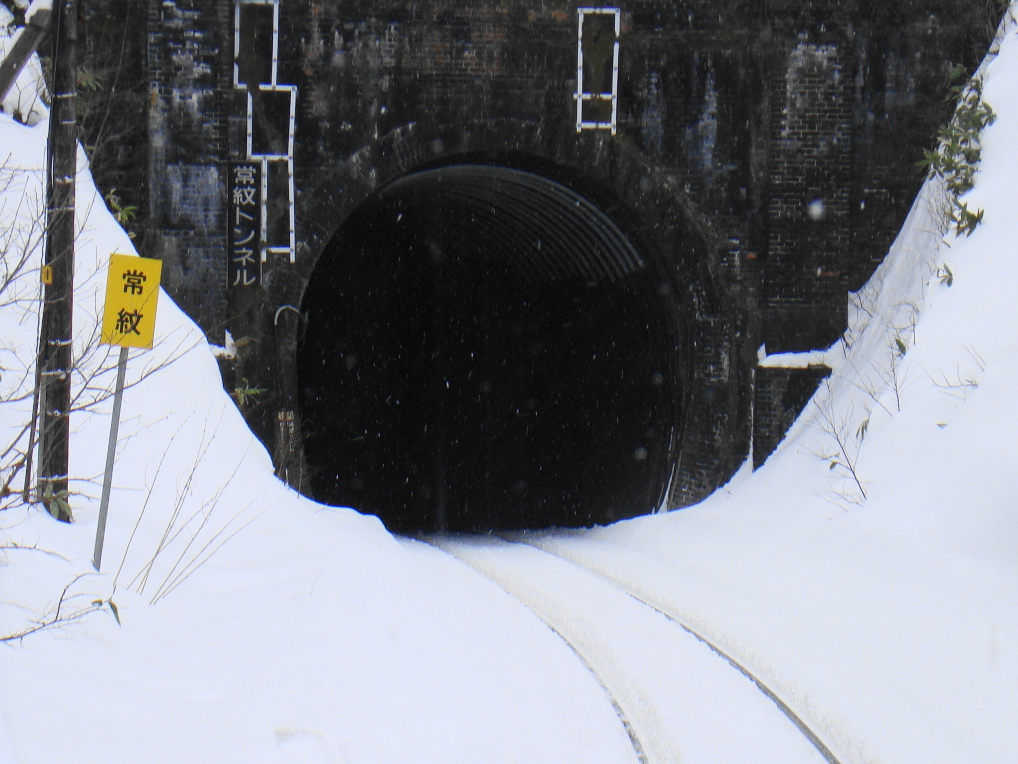 Engaru portal of Jomon Tunnel on the Sekihoku Main Line